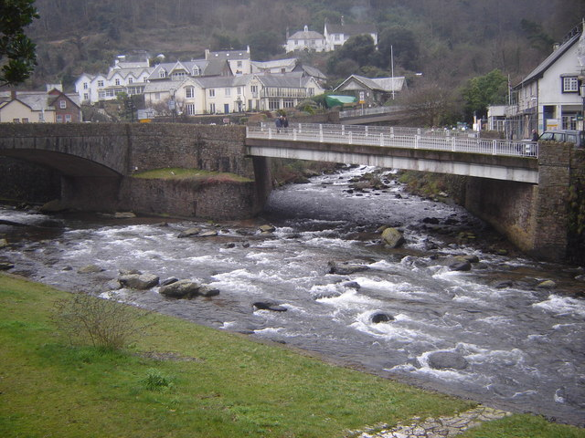 Confluence of East and West Lyn Rivers, Lynmouth This is a part of the village which has altered in appearance dramatically since the devastating flood of 1952.